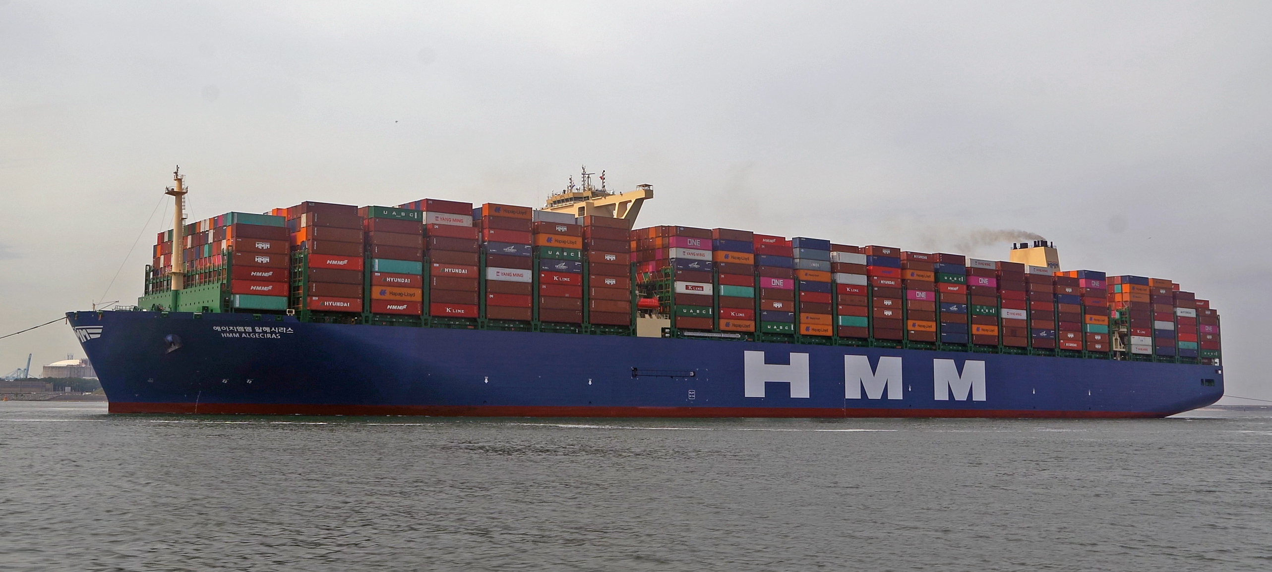 3-6-2020 eerste bezoek aan Rotterdam van het grootste containerschip ter wereld , VB CHEETAH en Rotterdam van Boluda Towage assisteerden het schip naar de RWG terminal op de Maasvlakte 2